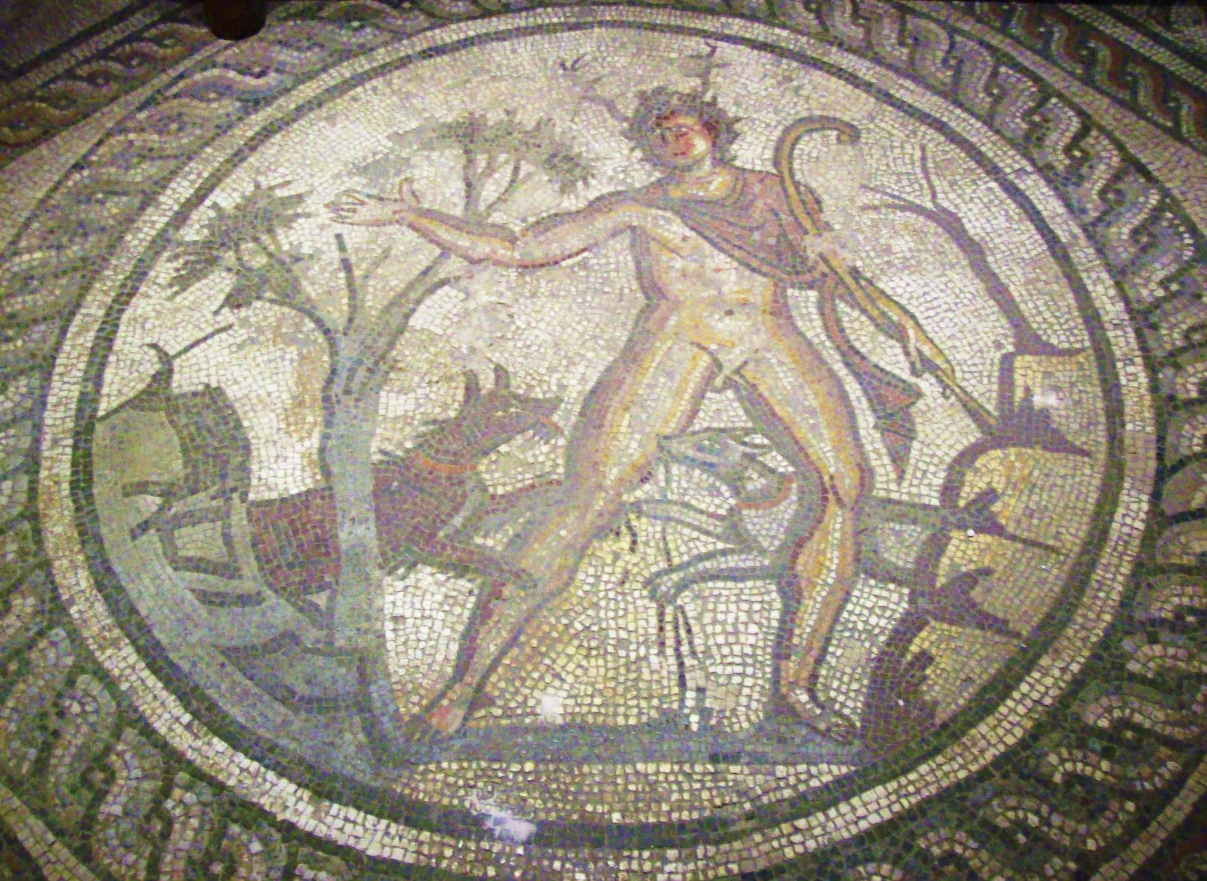 Roman mosaic showing Actaeon being attacked by his own dogs, Corinium Museum, Cirencester